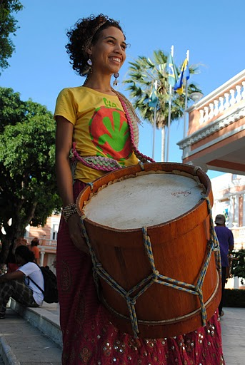 Girl in Bate Palmas band